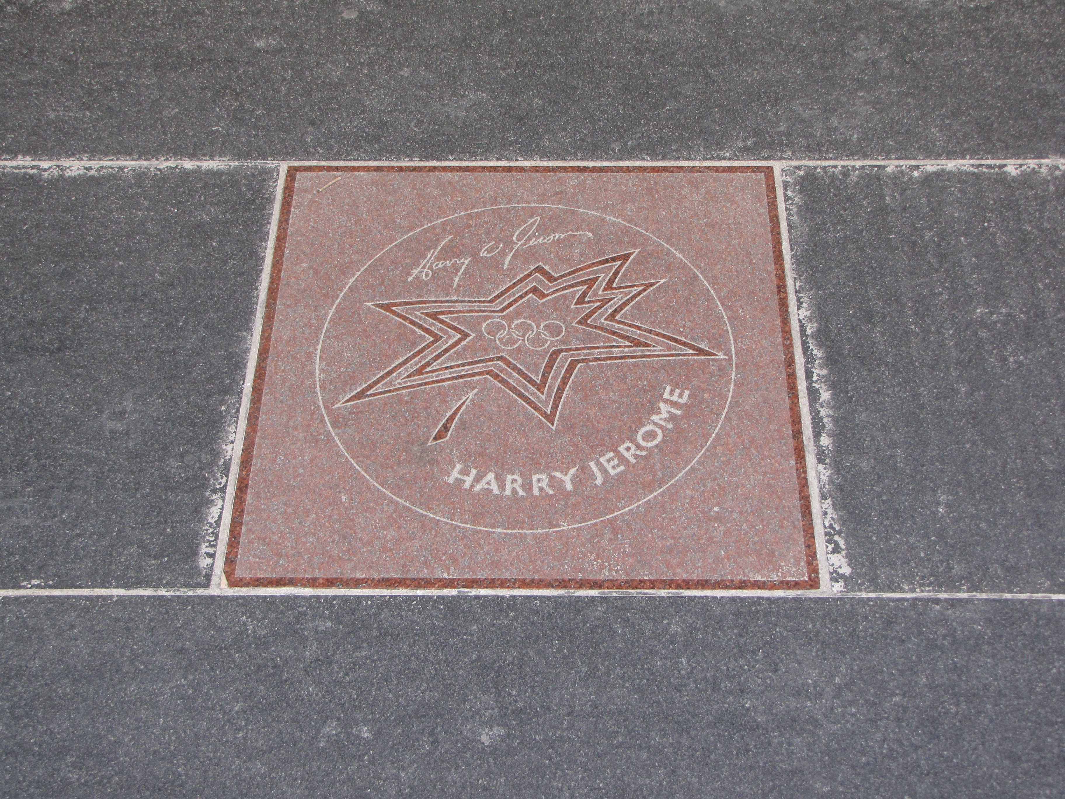 Harry Jerome's star on Canada's Walk of Fame